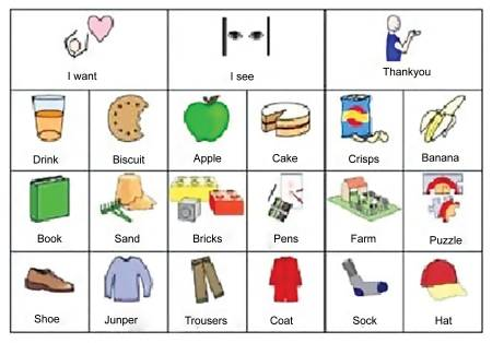 Example of Picture Exchange Communication System.